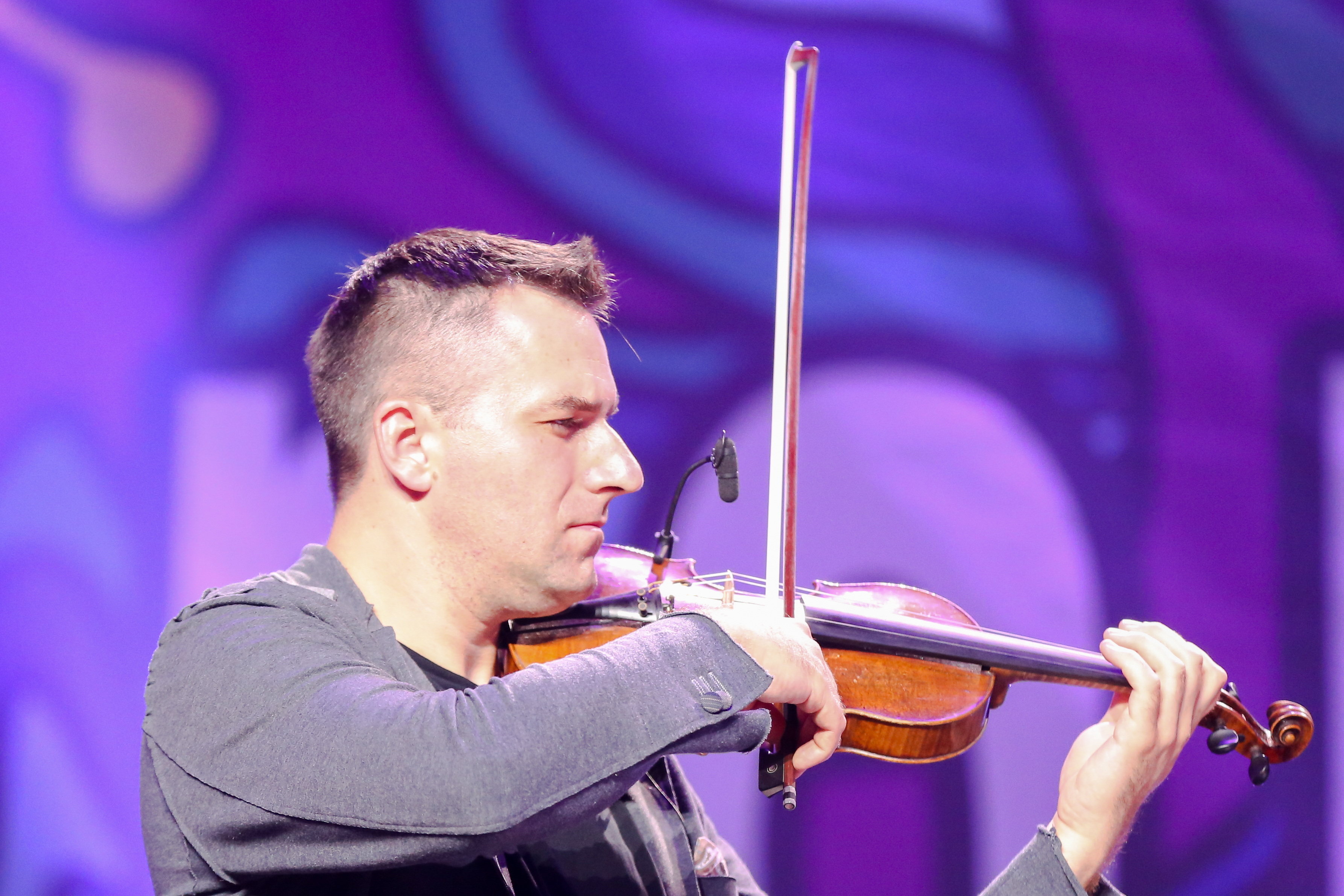 Pol'and'Rock Festival in 2019.